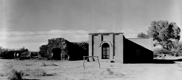 The mission at Atil through the ages with old and new side-by-side.